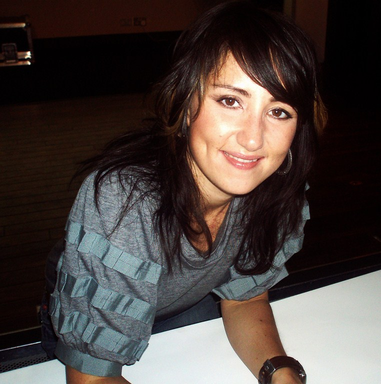 KT